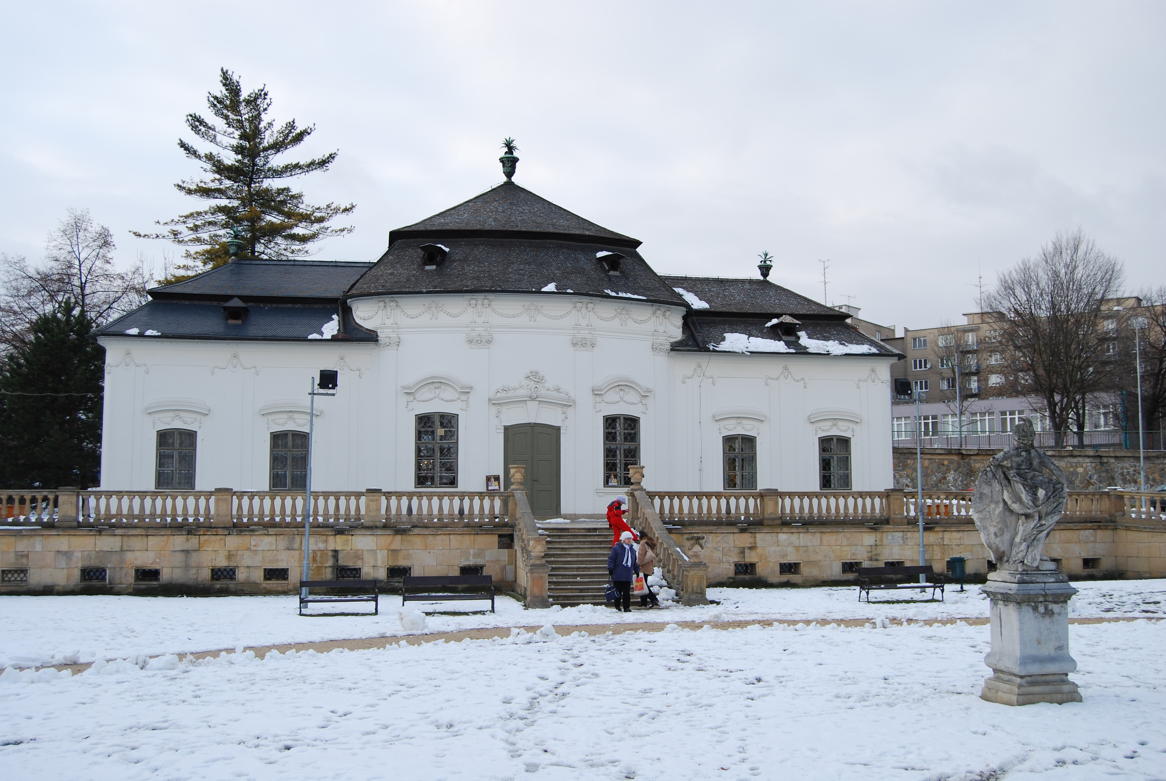 Old Brno - Villa Mitrovsky